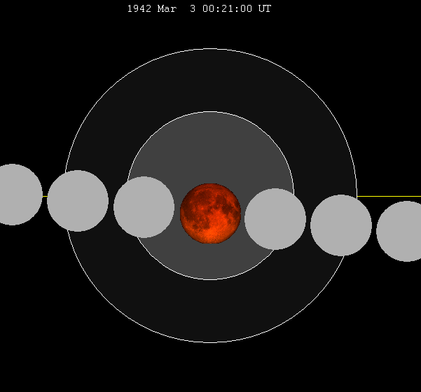 March 1942 lunar eclipse chart of moon's lunar eclipse path through the earth's shadow. thumb